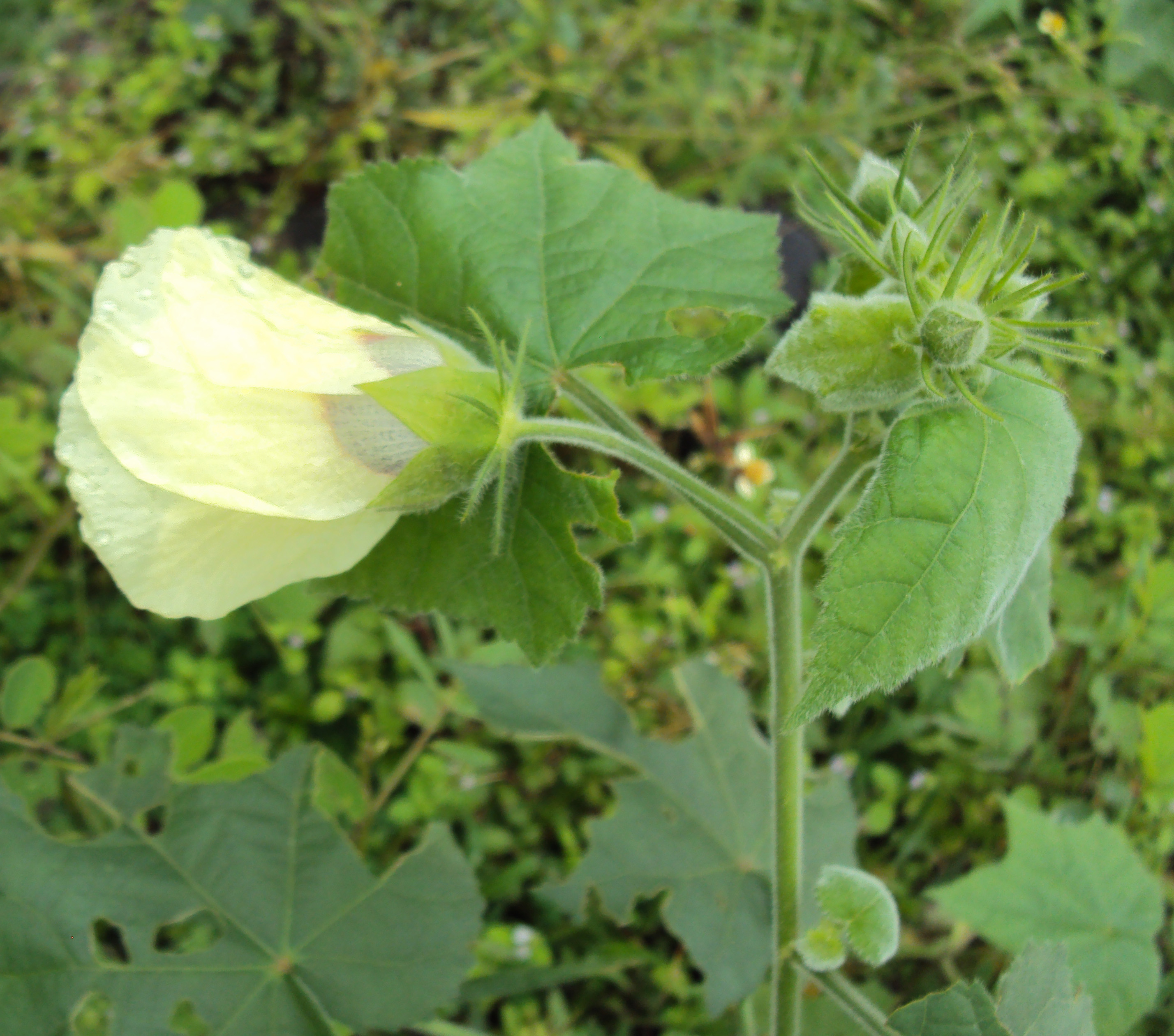 Hibiscus vitifolius